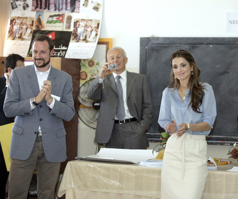 Queen Rania, Young Global Leaders captured at the World Economic Forum on the Middle East held at the Dead Sea in Jordan 18-20 May 2008. Haakon, Crown Prince of Norway to the left. Copyright World Economic Forum (